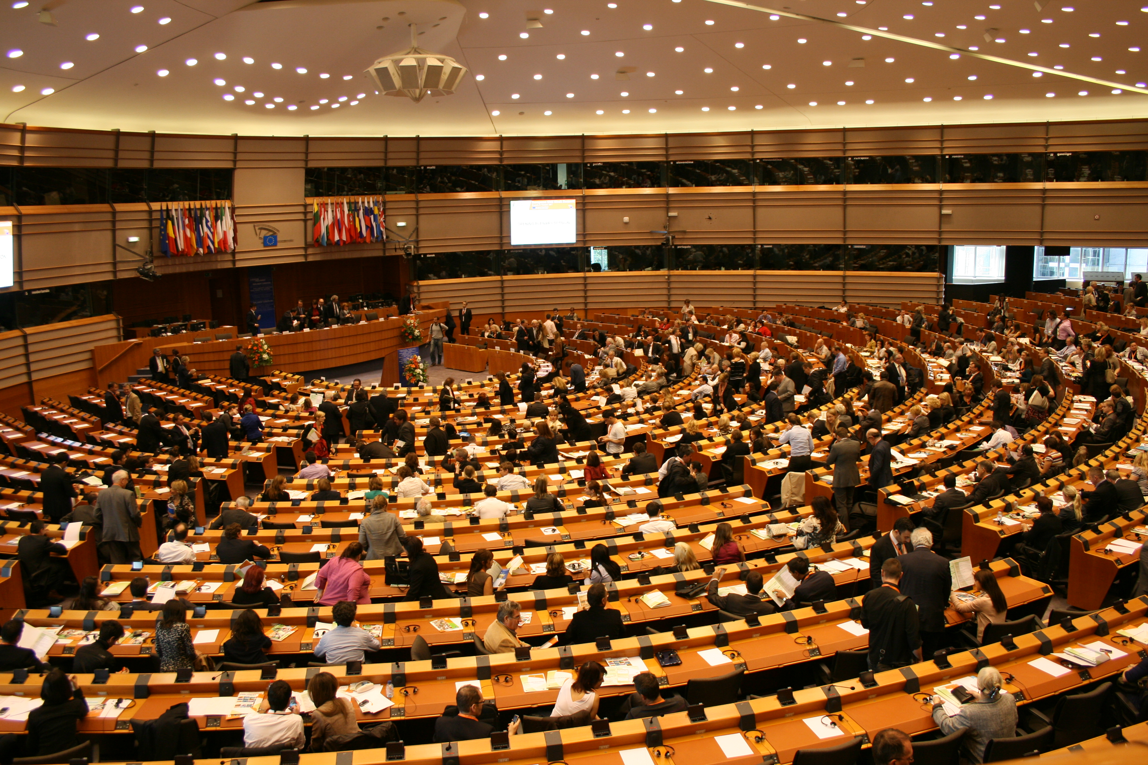 European Parliament Brussels plenary sessions hemicycle